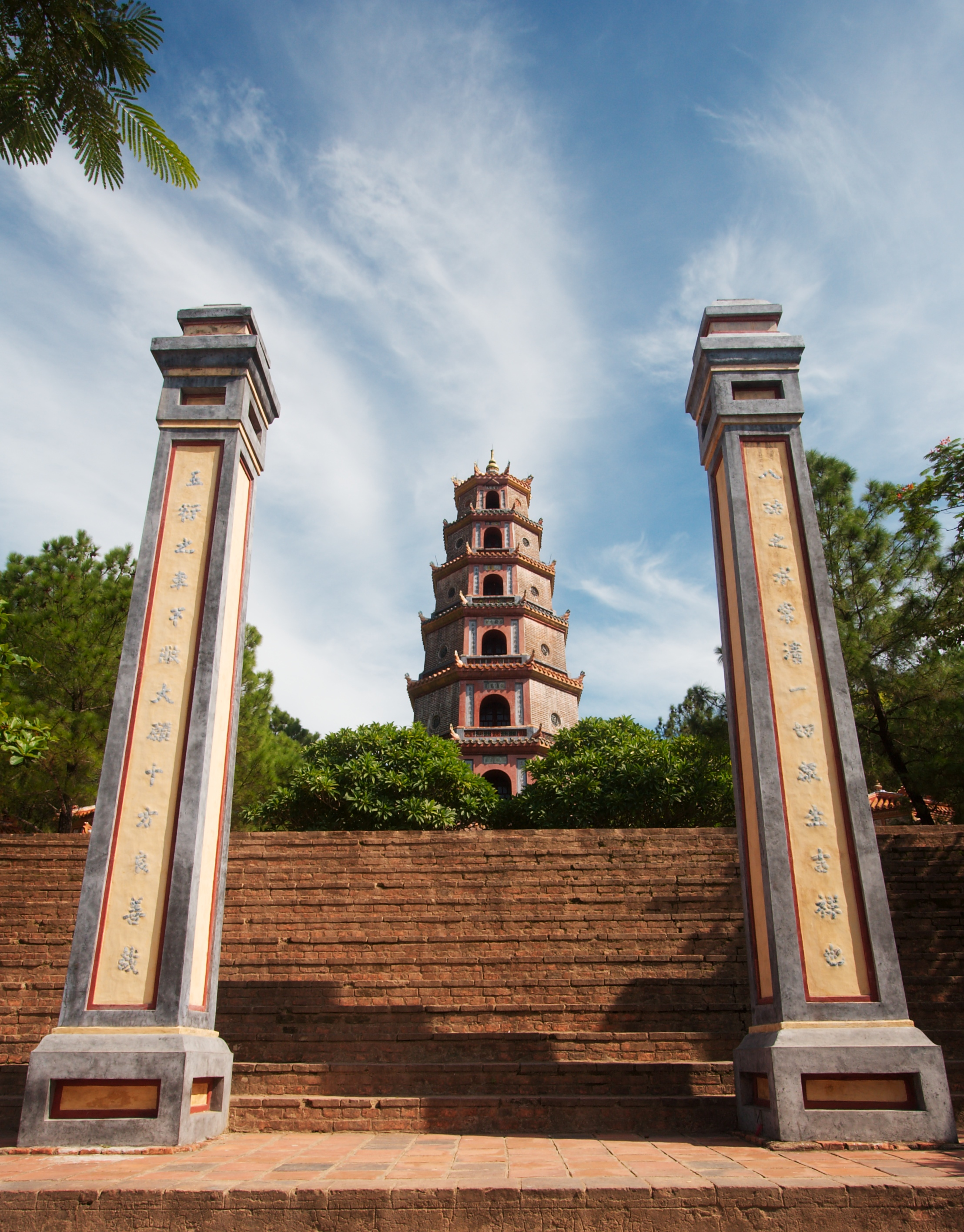 Thien Mu Pagoda